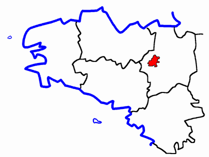 Description: Map for localisazion of cantons of Bretagne region in France Source: made by Hervé Tigier from another large map